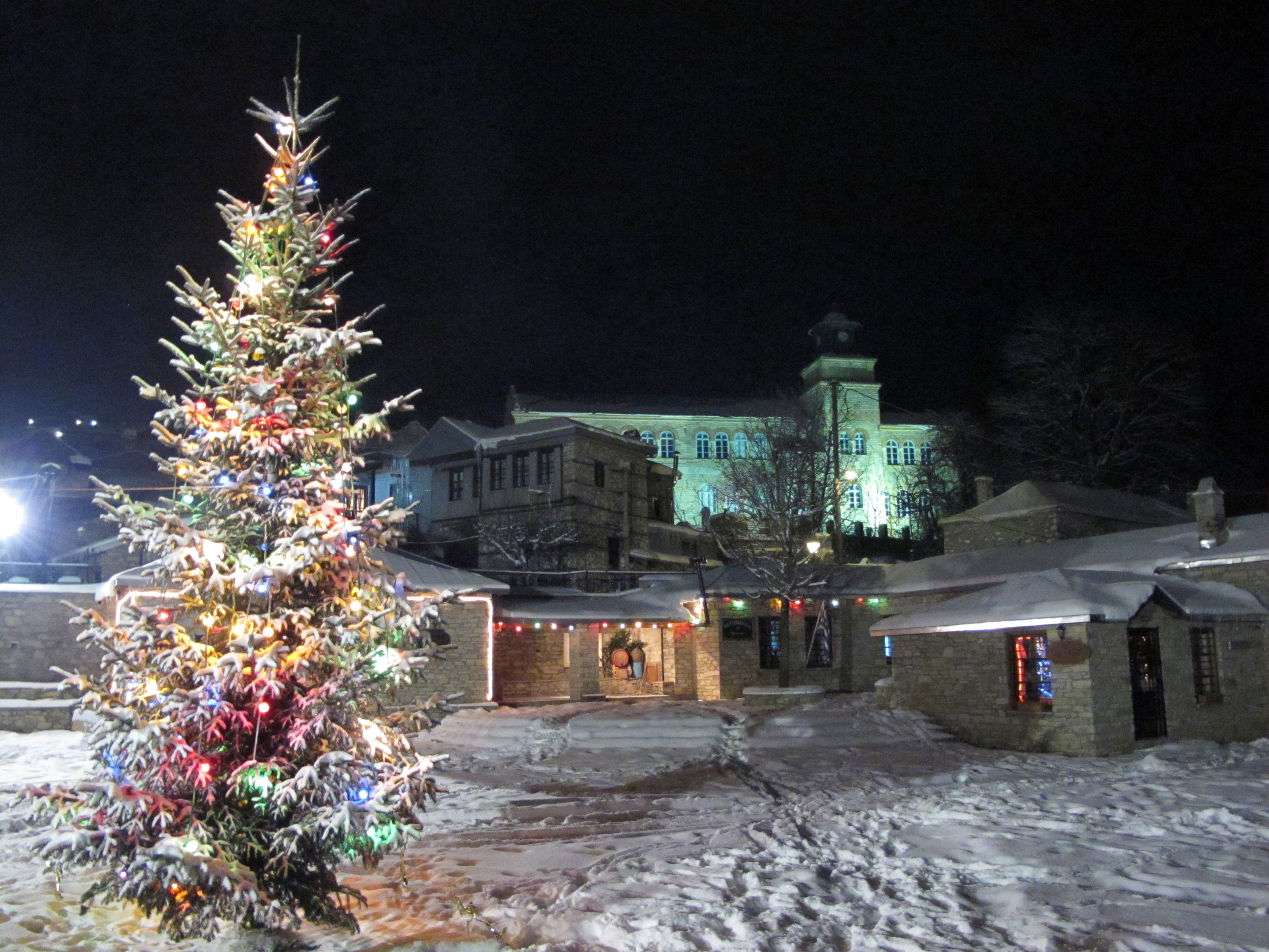 Christmas tree in Nymfaio, Western Macedonia, Greece